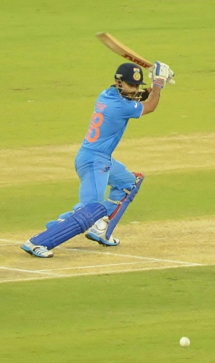 Virat Kohli batting for India against United Arab Emirates during their 2015 Cricket World Cup match at the WACA Ground in Perth, Australia. The UAE wicketkeeper is Swapnil Patil.